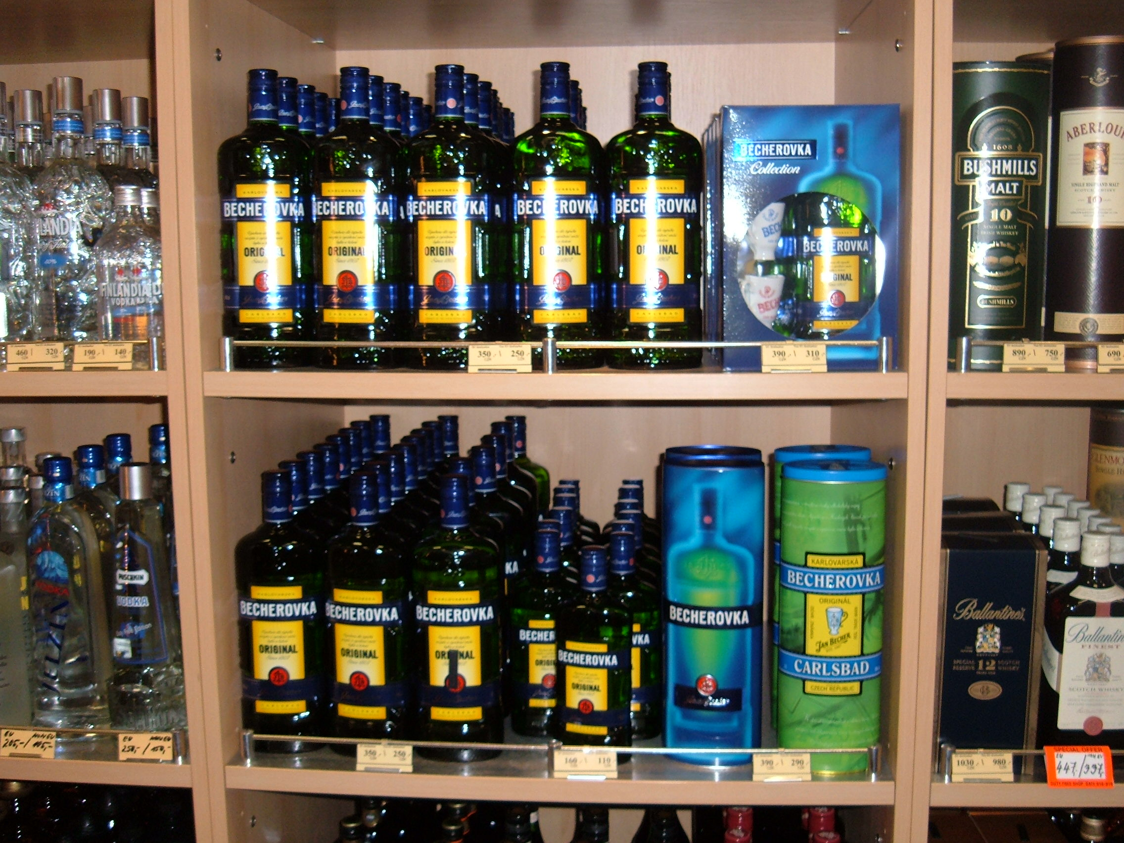 2 shelves of Becherovka for sale at Ruzyně International Airport.